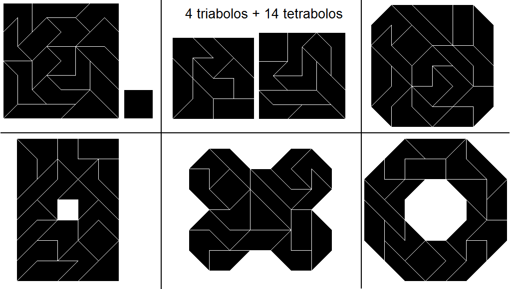 A set of 18 polyabolos that contains all the 4 triaboloes and the 14 tetraboloes in 6 different shapes